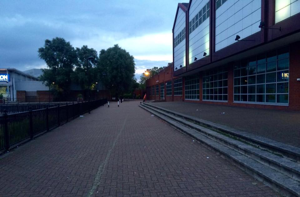 View on June 2016